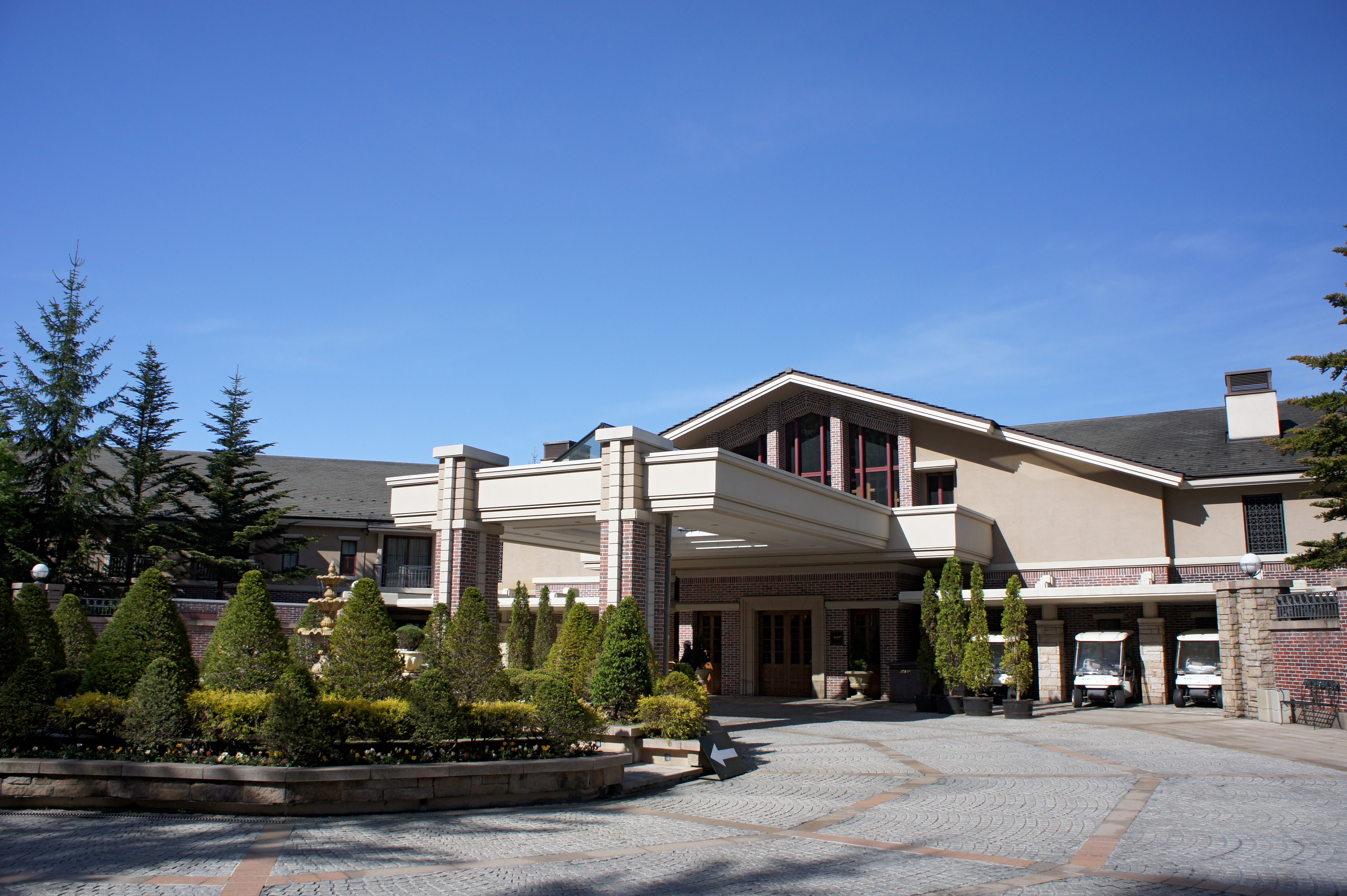 XIV Tateshina in Chino, Nagano prefecture, Japan